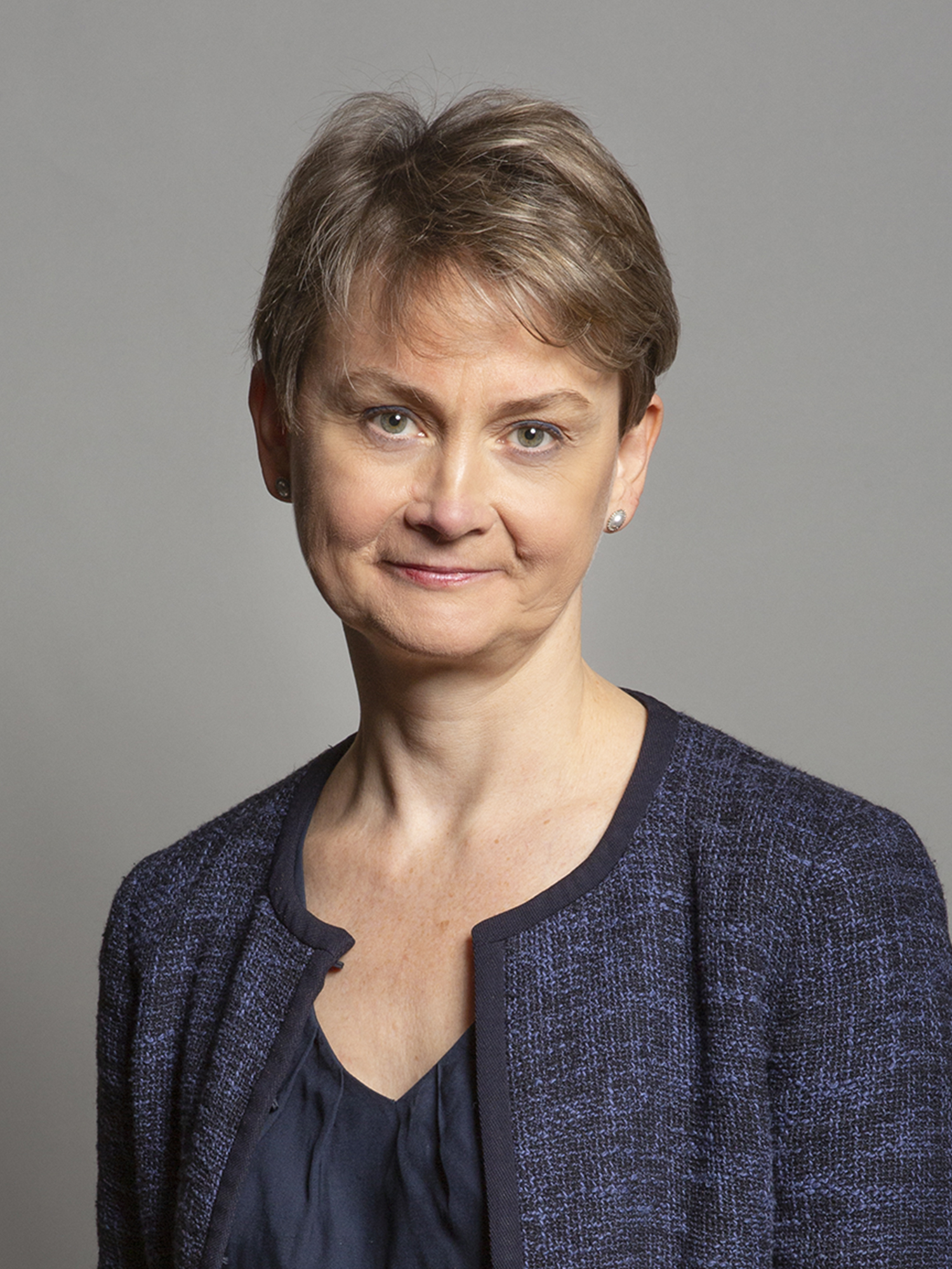 Official portrait of Rt Hon Yvette Cooper MP 3×4 portrait of Yvette Cooper